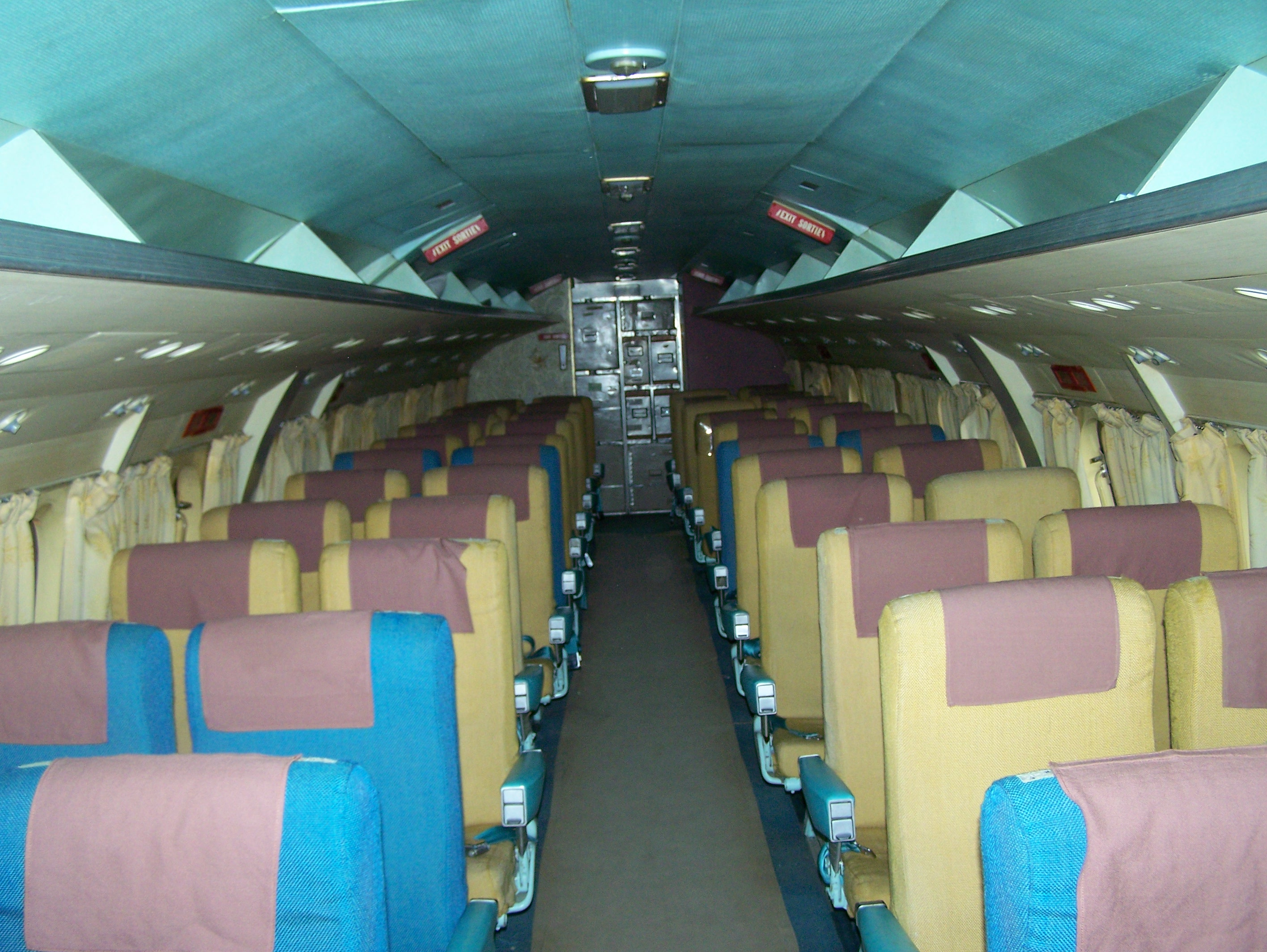 Interior of a Vickers Viscount Type 700 at the Western Canada Aviation Museum in Winnipeg, Manitoba.